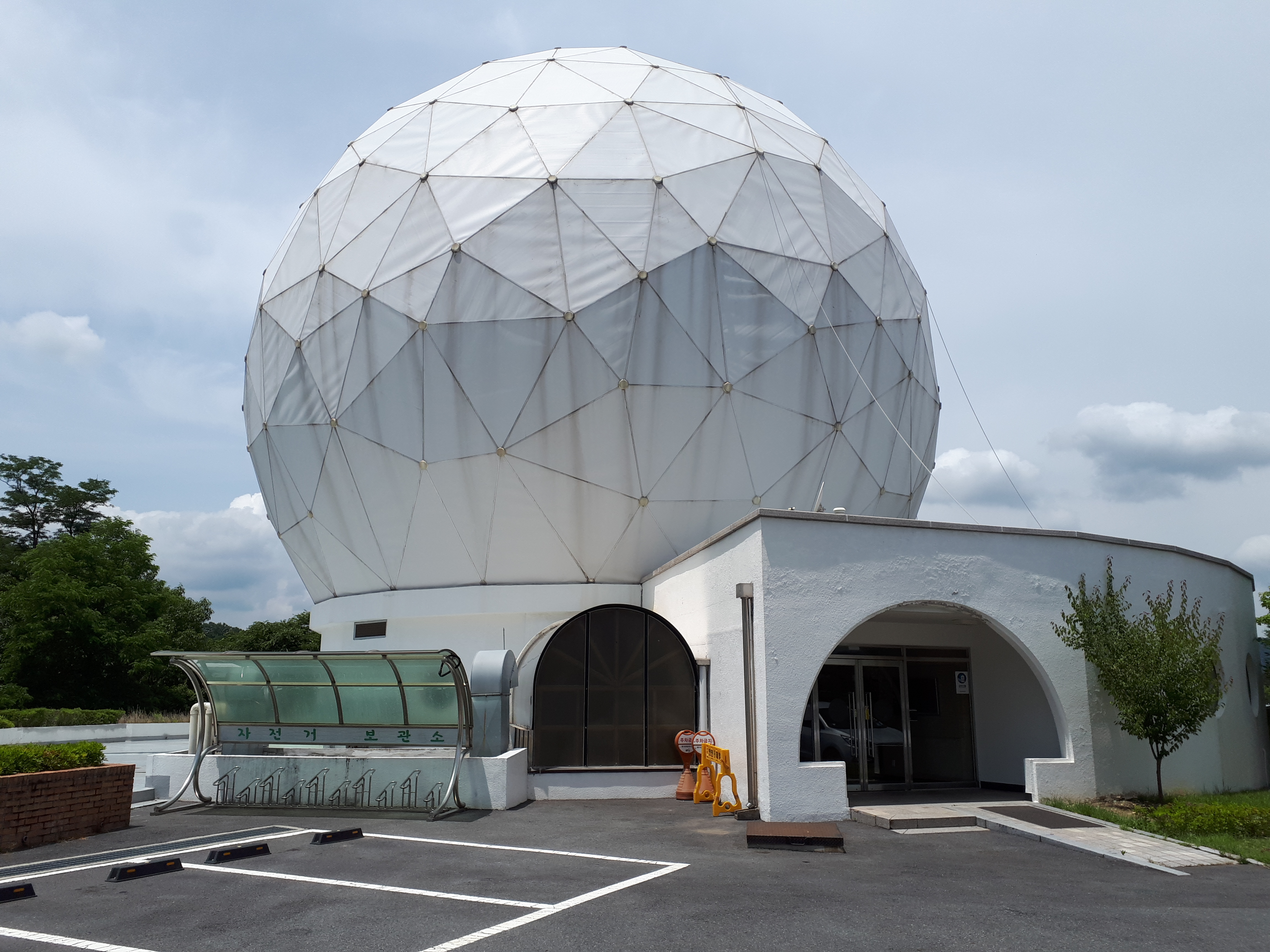 Taeduk Radio Astronomy Observatory in Korea Astronomy and Space Science Institute(KASI) HQ